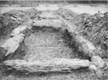 The gallery grave Atteln II during the excavation in 1926